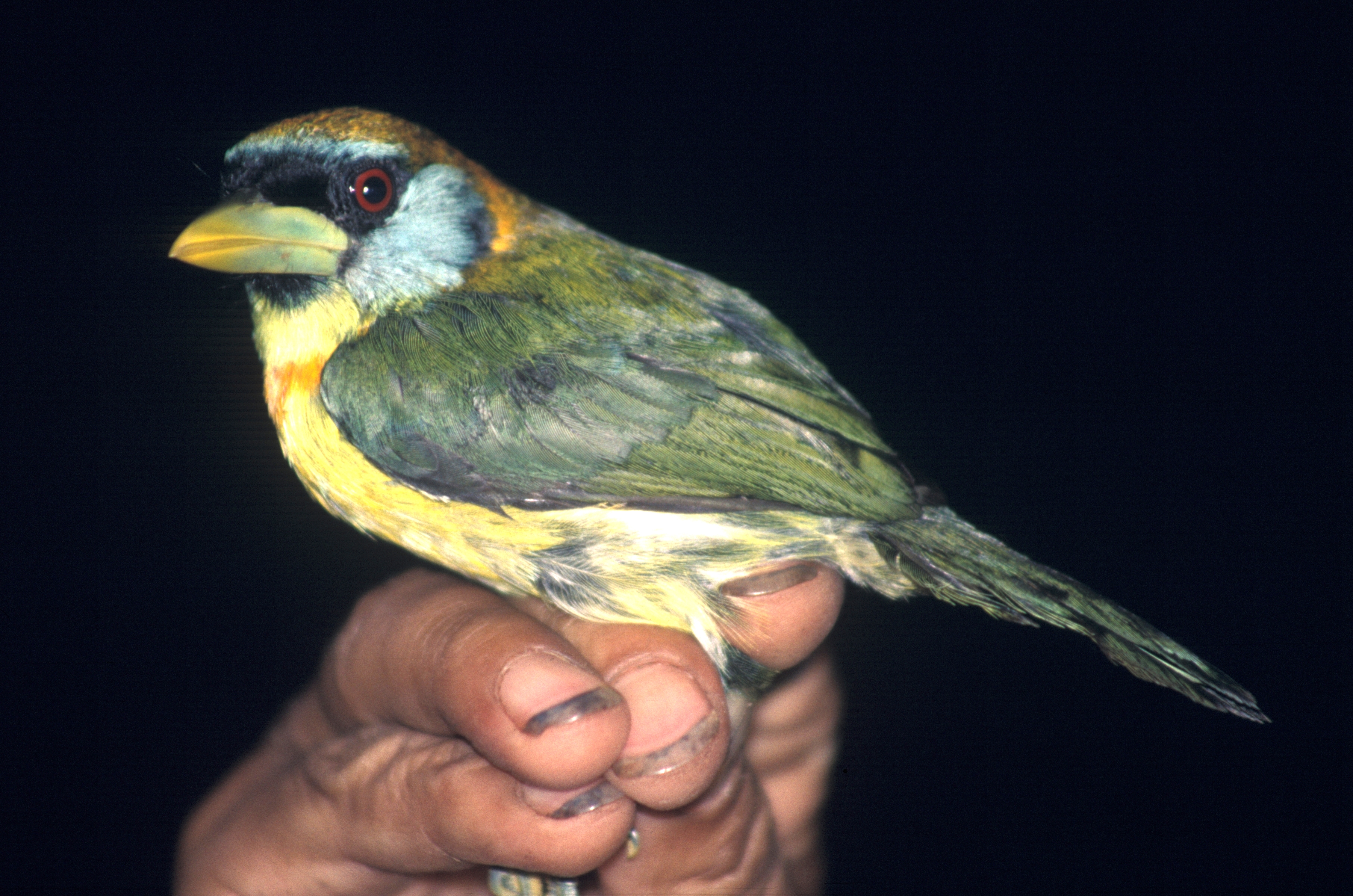 Female Red-headed Barbet (Eubucco bourcierii) in Ecuador